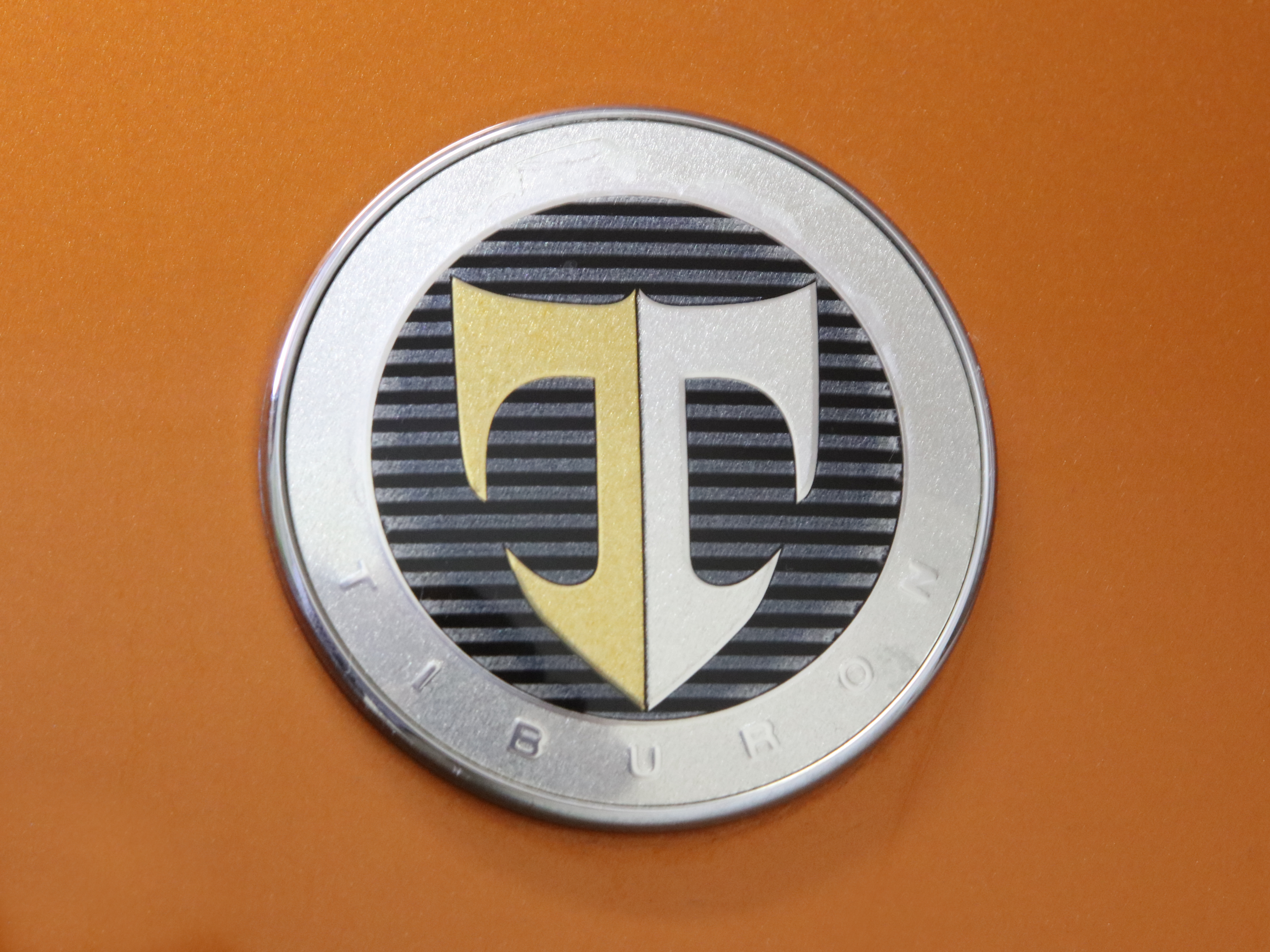 Tiburon badge from a 2005 Hyundai Tiburon TS car. Front.